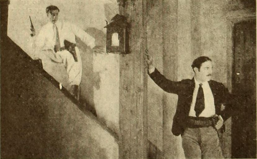 Still from the American film Rogues and Romance (1920), a re-edited feature film from the 10 episode film serial Pirate Gold (1920), with George B. Seitz and an unidentified actor. On page 62 of the March 1921 Photoplay magazine.